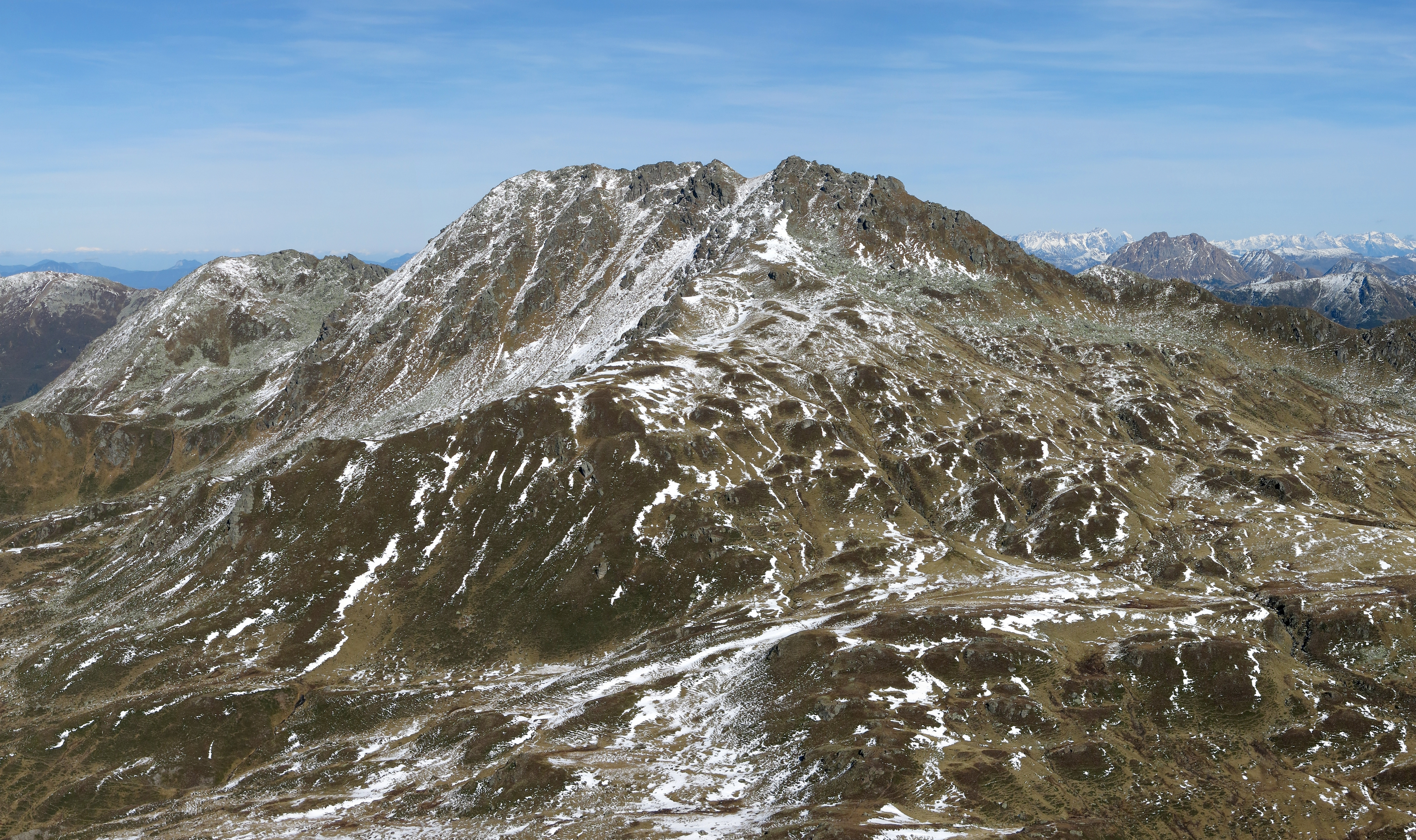 View from Tristkopf northeastward to the Kröndlhorn in the Kitzbühel Alps.